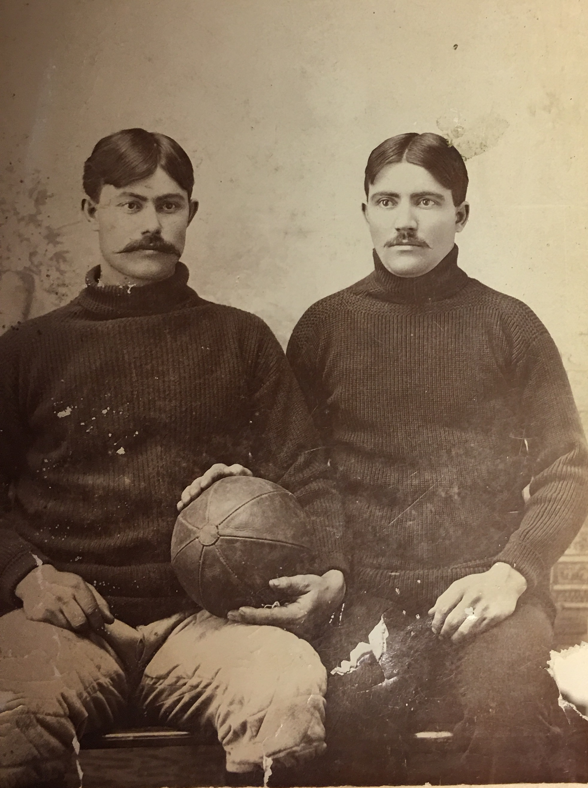 Photograph of Fielding Yost with teammate, probably at West Virginia, c 1895 or 1896